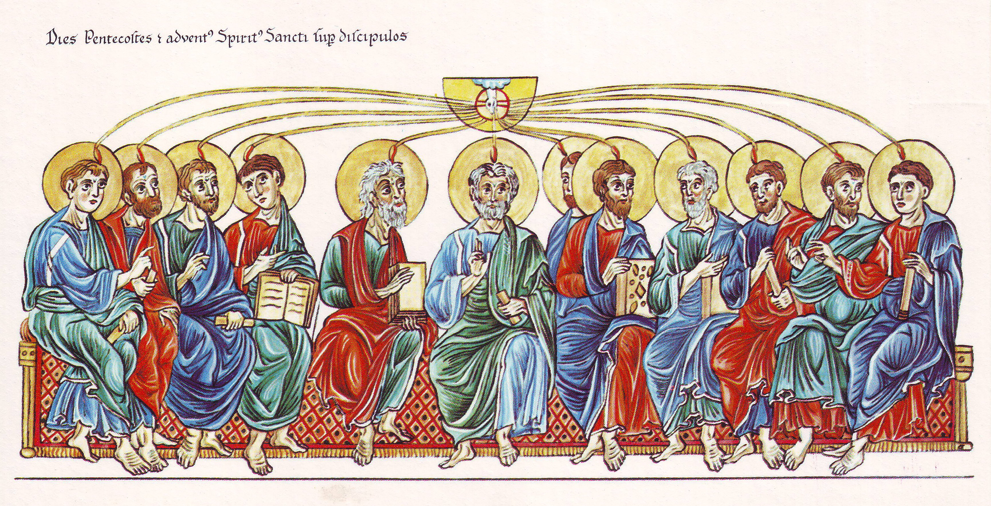 Hortus Deliciarum, Pentecost : The sending of the Holy Spirit upon the Apostles